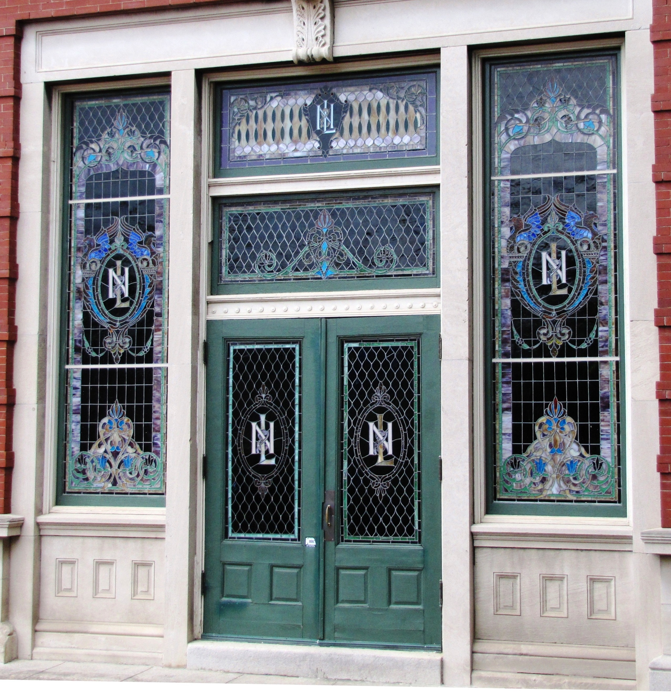 Stained glass windows at the northwest entrance of the L&N Station in Knoxville, Tennessee, USA. This entrance originally accessed the ladies' waiting room.